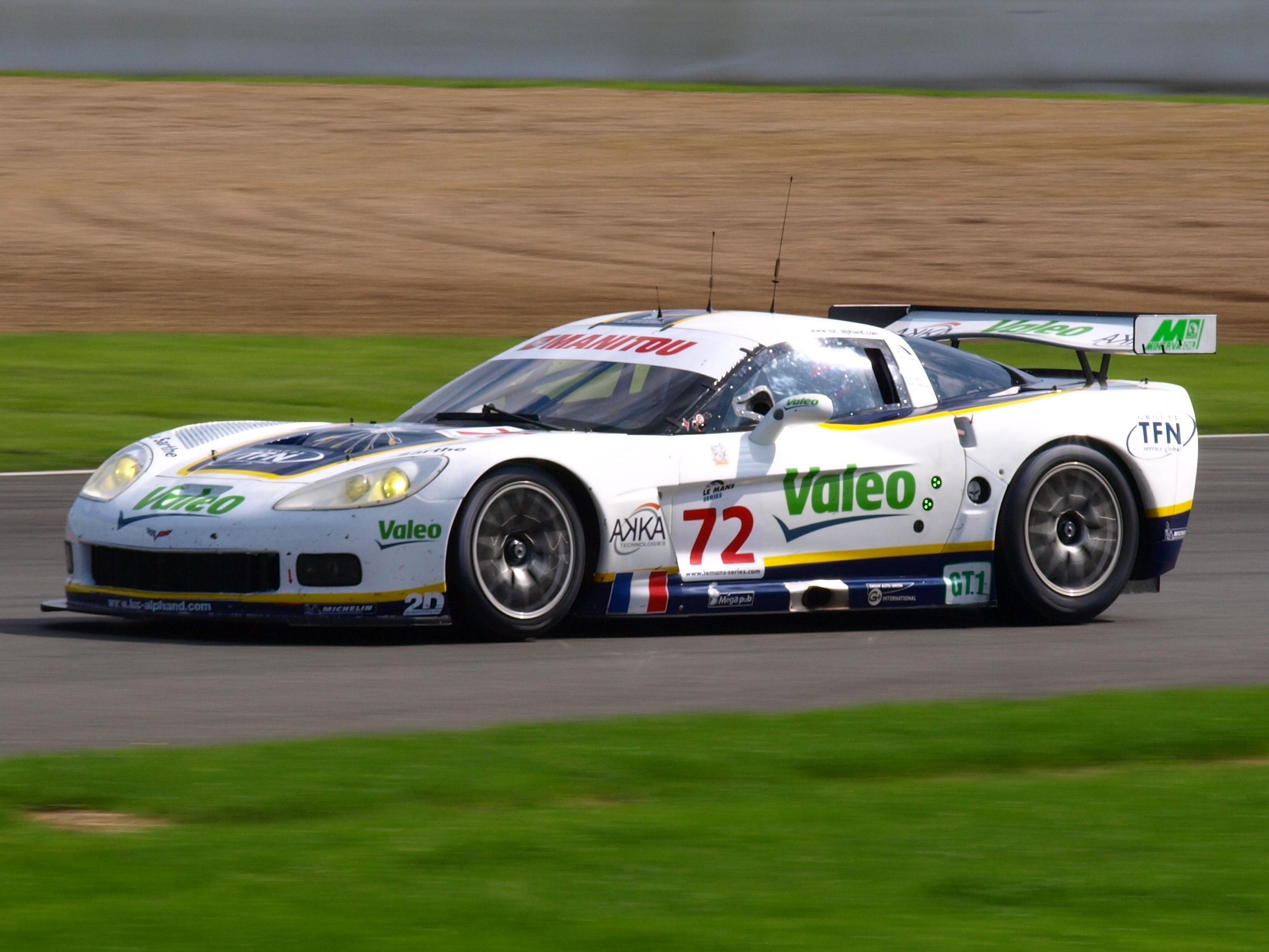 Luc Alphand Aventures' Corvette C6.R at the 2008 1000km of Silverstone